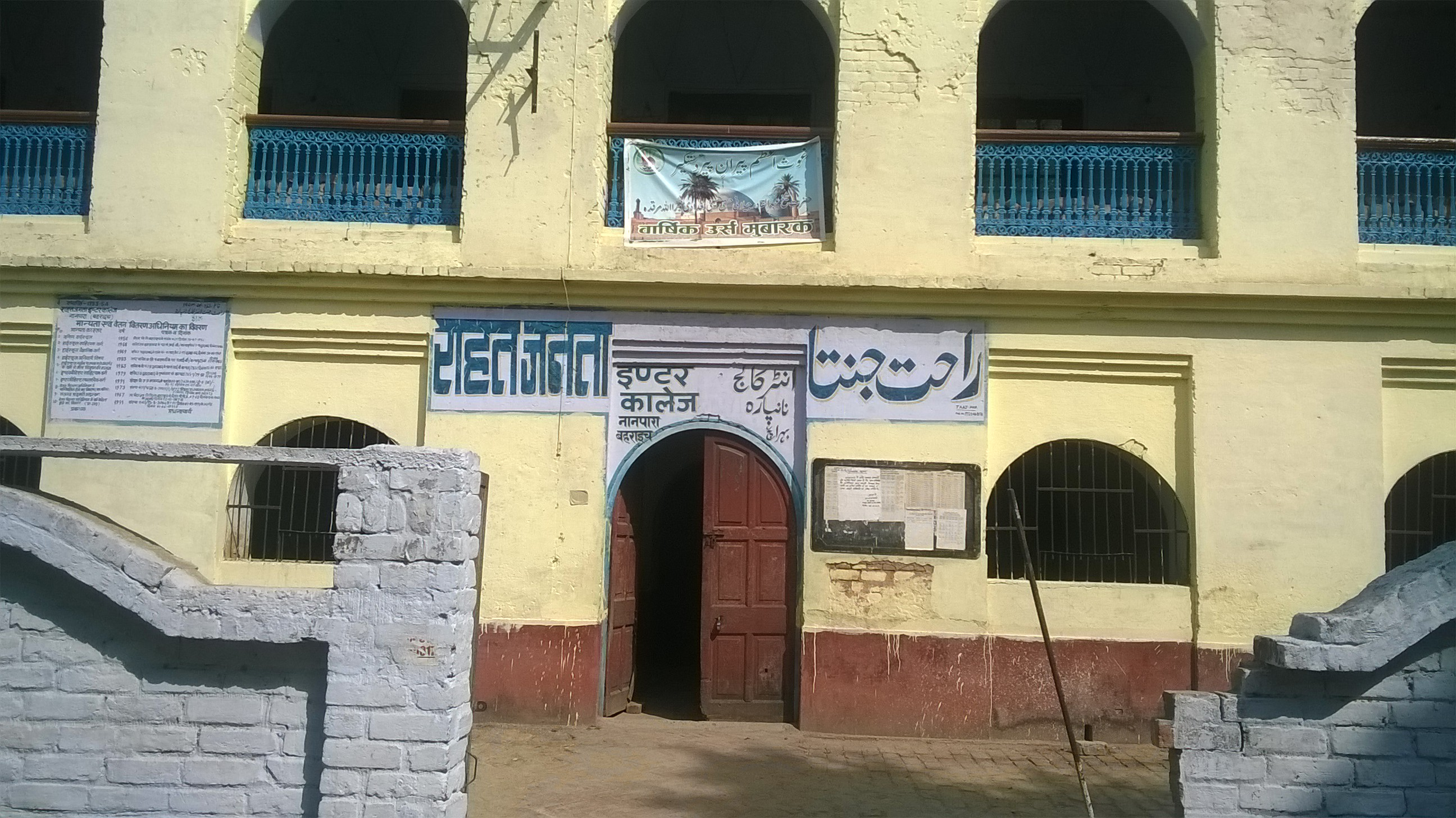 Rahat Janta Inter College Nanpara etablish in 1953-54 by Urdu poet Aiman Chugtai Nanparvi